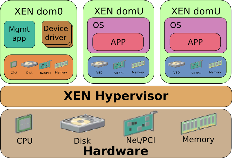 XEN Hypervisor schema